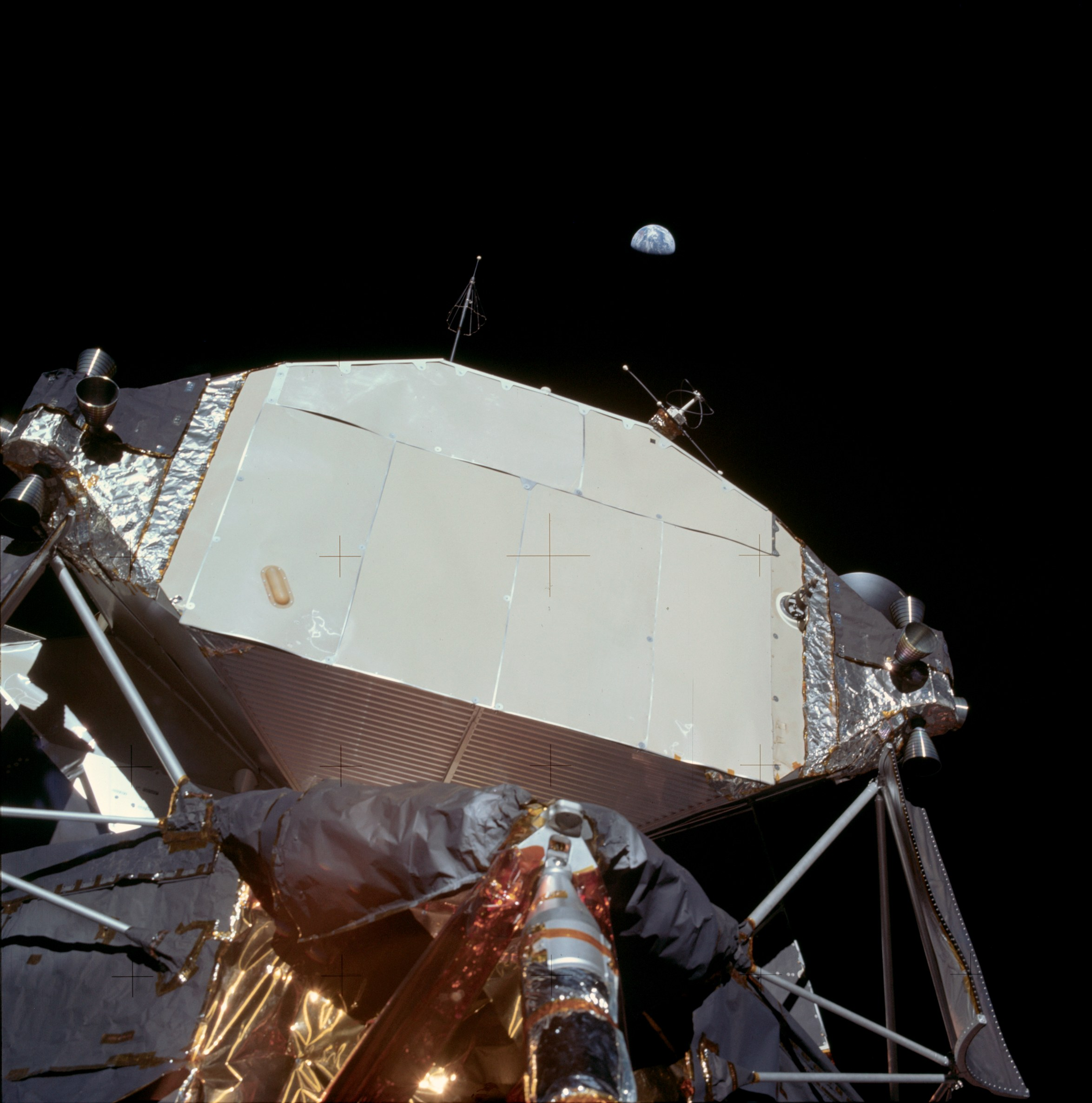 Photo of Earth taken from behind the Apollo 11 Lunar Module. Photo magazine 40, photo # 5924.